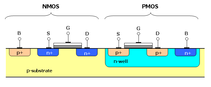 Impurity profile of a CMOS transistor pair.